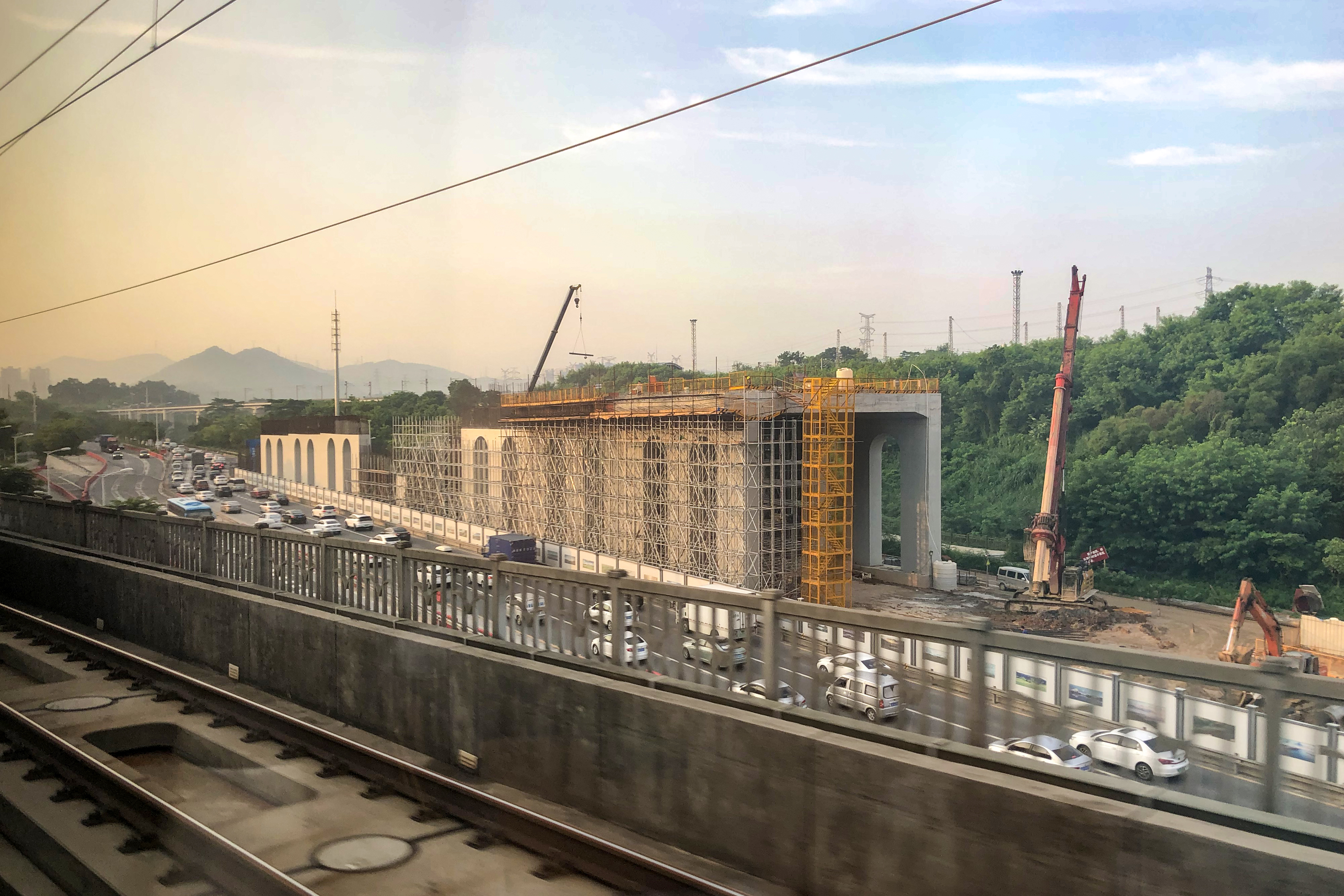 Taken from an overnight train. This will become part of the Beijing-Hong Kong corridor.